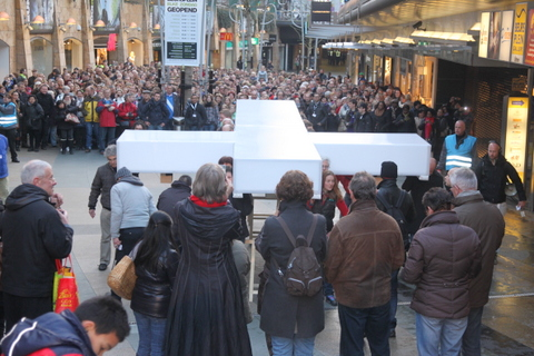 The Passion in Rotterdam, visited by 10,000 people